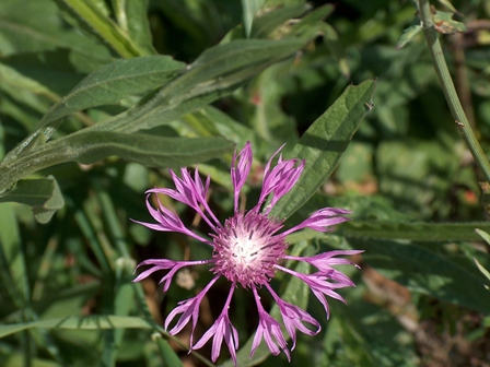 Flower of Centaurea napifolia